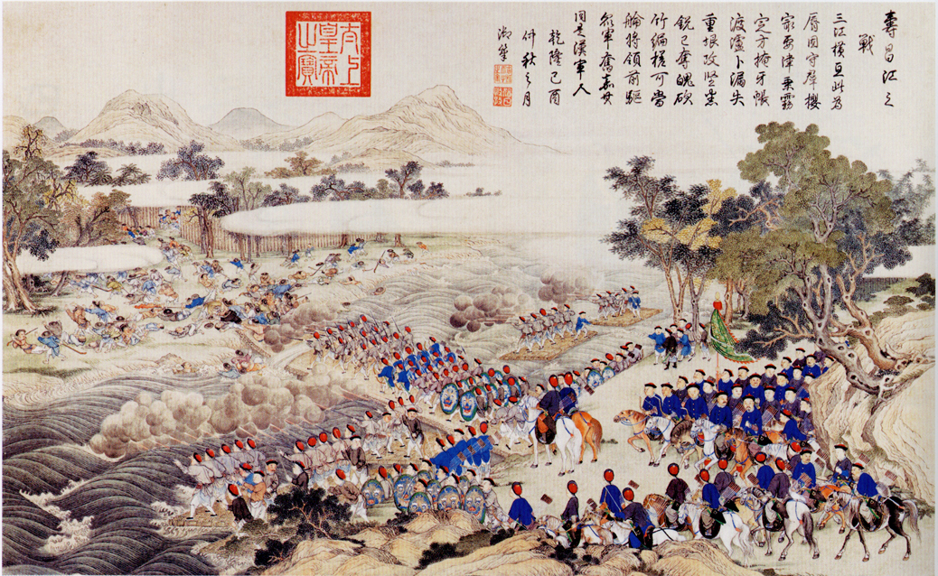 A scene of the Chinese Campaign against Annam (Vietnam) 1788 - 1789